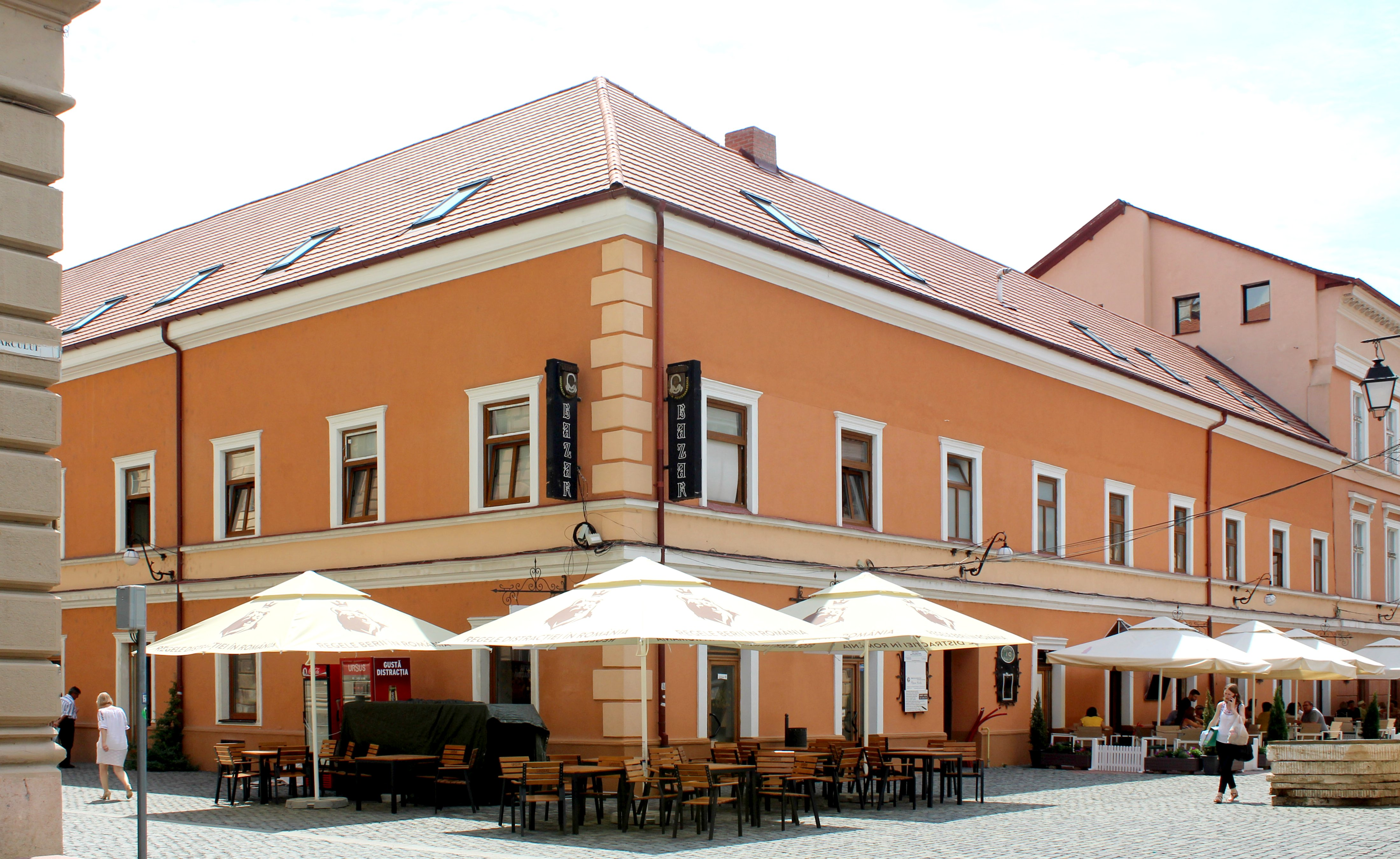 House, Griselini Str., no. 2, Timișoara, Romania, built 18th century